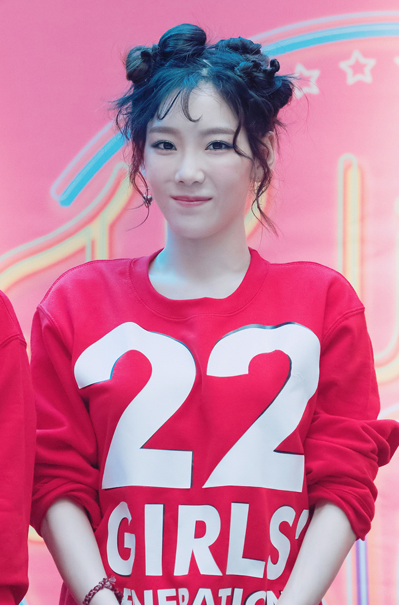 Kim Tae-yeon during a fansigning event on August 13, 2017.